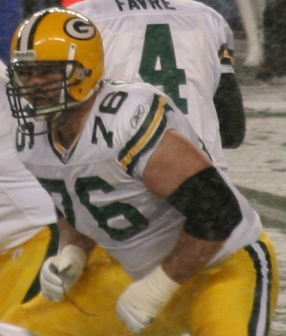 Packers on offense during a Monday Night football game against seattle seahawks